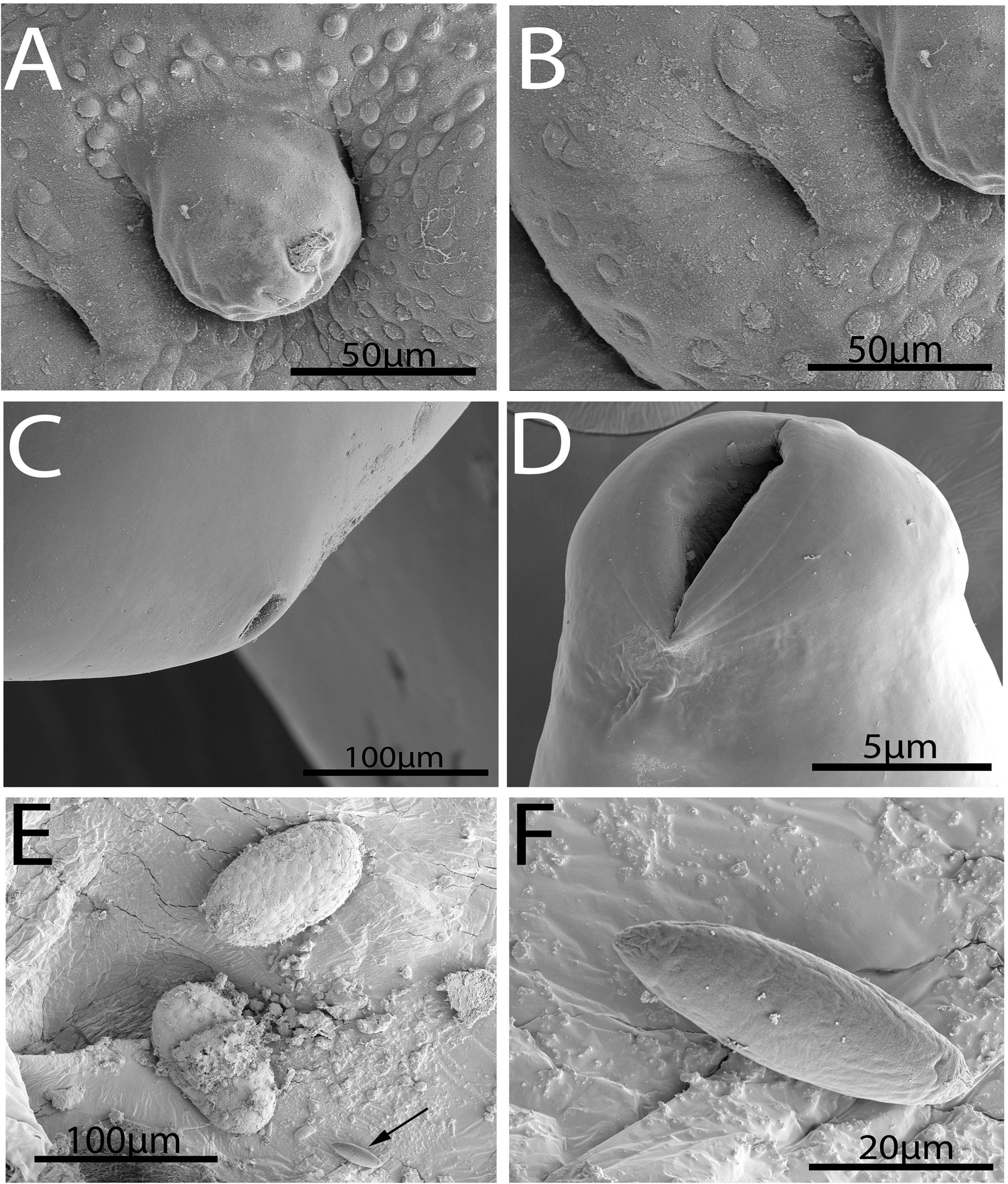 Figure 4 of paper. SEM image of specimens of Rhadinorhynchus oligospinosus Amin & Heckman, 2017 from Scomber japonicus and Trachurus murphyi from off the Pacific coast of Peru. (A) The terminal genital appendage of a bursa surrounded by inner sensory discs. Note one of the two clefts to left. (B) A larger magnification of one of the two genital clefts with a few sensory discs and part of the terminal genital appendage. (C, D) The various sizes of the female genital orifice are shown with the larger one (D) occupying almost all the trunk diameter at that level; note prominent lips. (E) Two ovarian balls and one mature egg (arrow) from the body cavity of one female specimen. Note comparative sizes. (F) A fully developed egg. Note the lack of any characteristic features or fibrils.